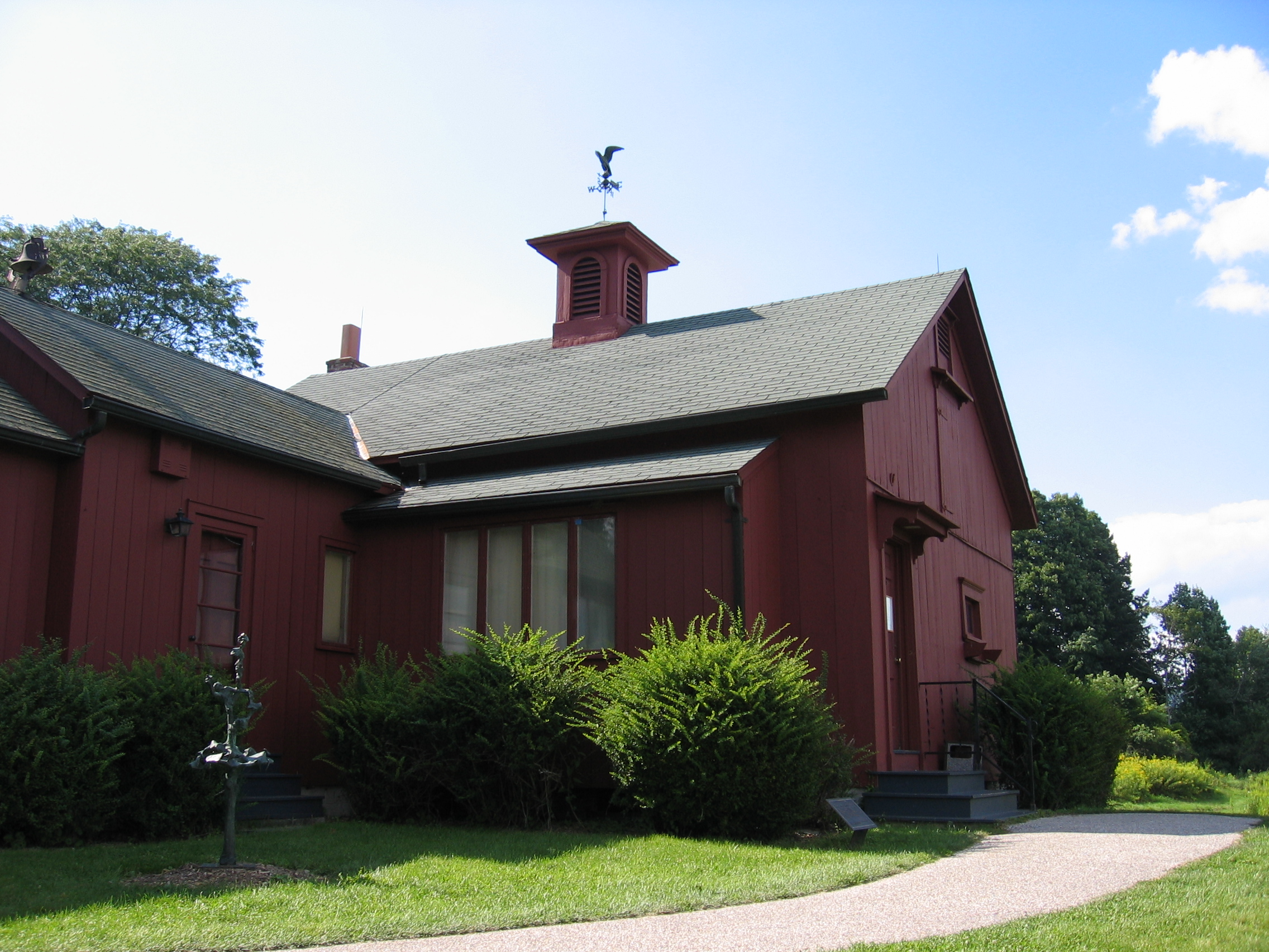 The front of Norman Rockwell's studio.